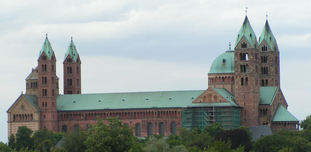 Speyerer Dom, Speyer, Germany